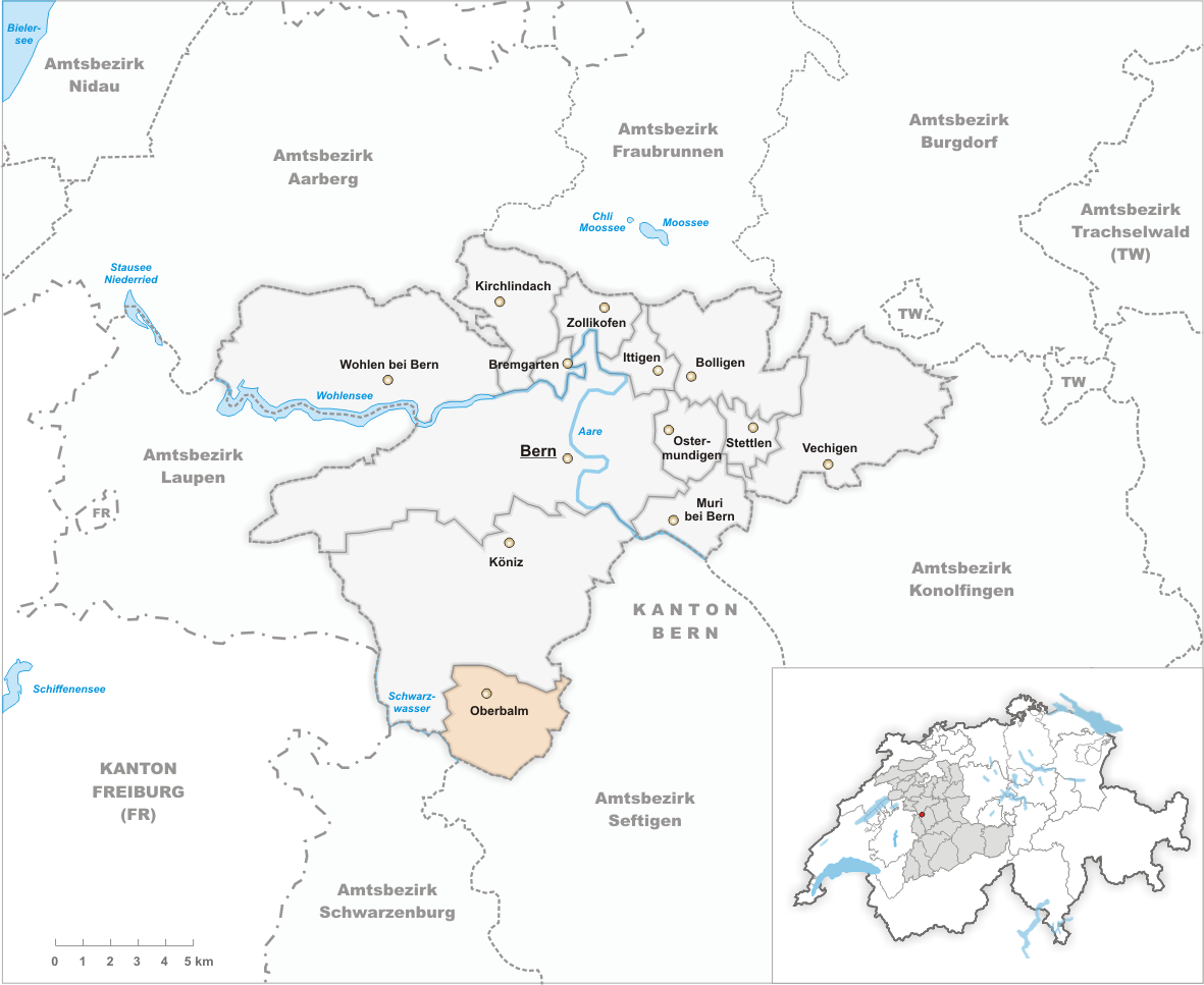 Municipality Oberbalm